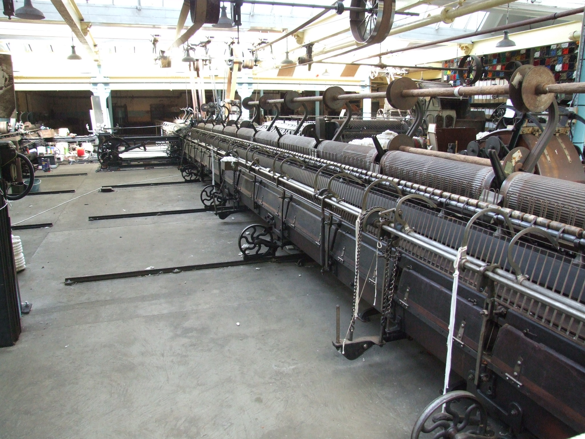 Masson Mills built in 1783 is home to a working textile mills. The mill possess a pair of condenser spinning mules. These have 741 spindles being cut down from 133 feet (41 m) 1122 spindles they used to have up until the 24th Sept 1974, when they were retired from Elk Mill, Royton. The mule was built by Platt Bros, of Oldham in 1927 for Elk, the last spinning mill built. hi